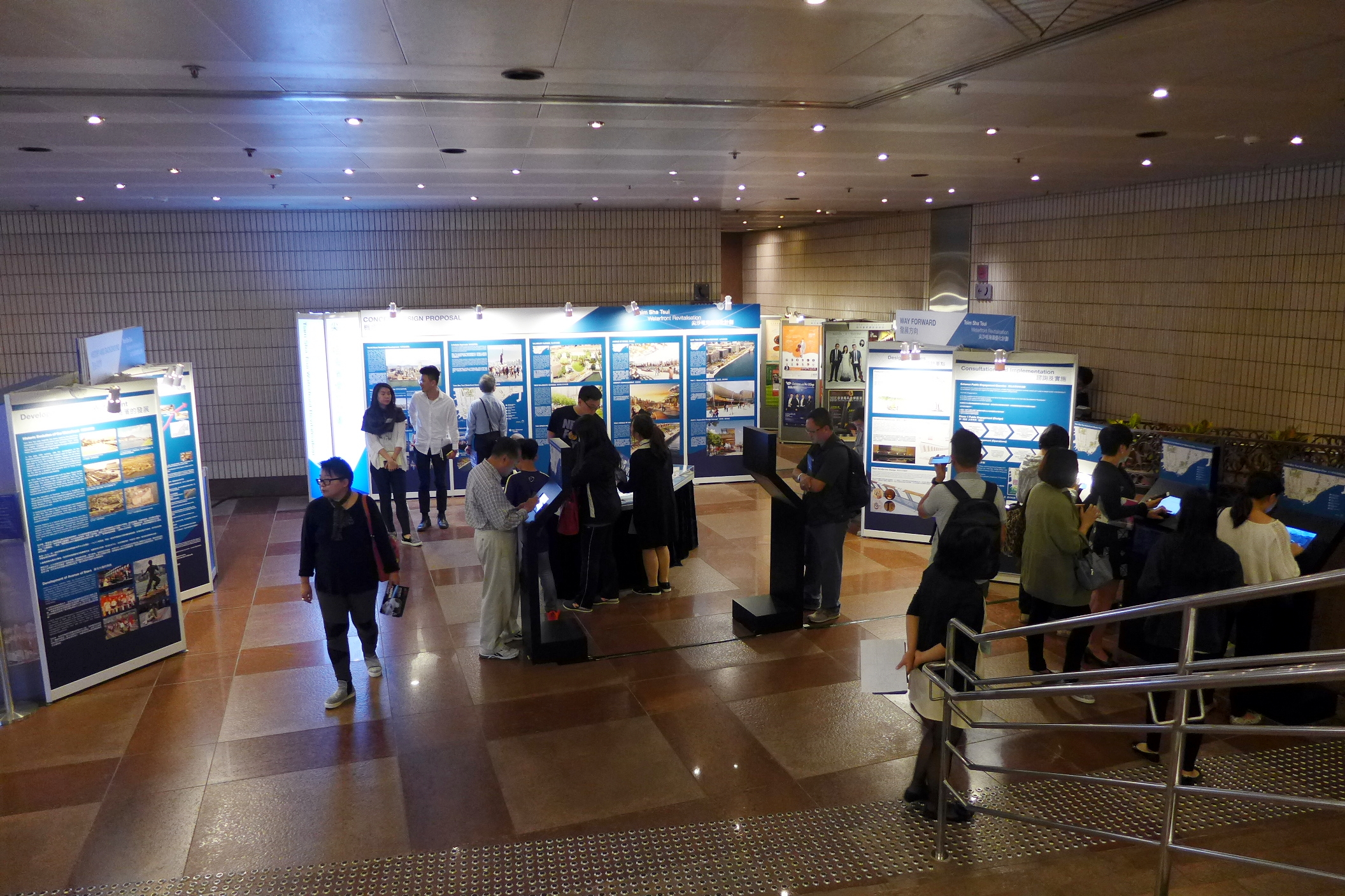 Revitalisation of Avenue of Stars and TST Promenade Public consultation